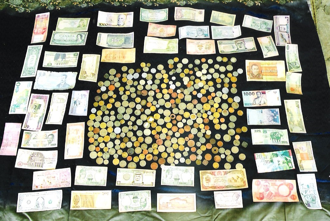 A photo of coin collection. By jiji john Mallasery. This hobby started from my early school days.